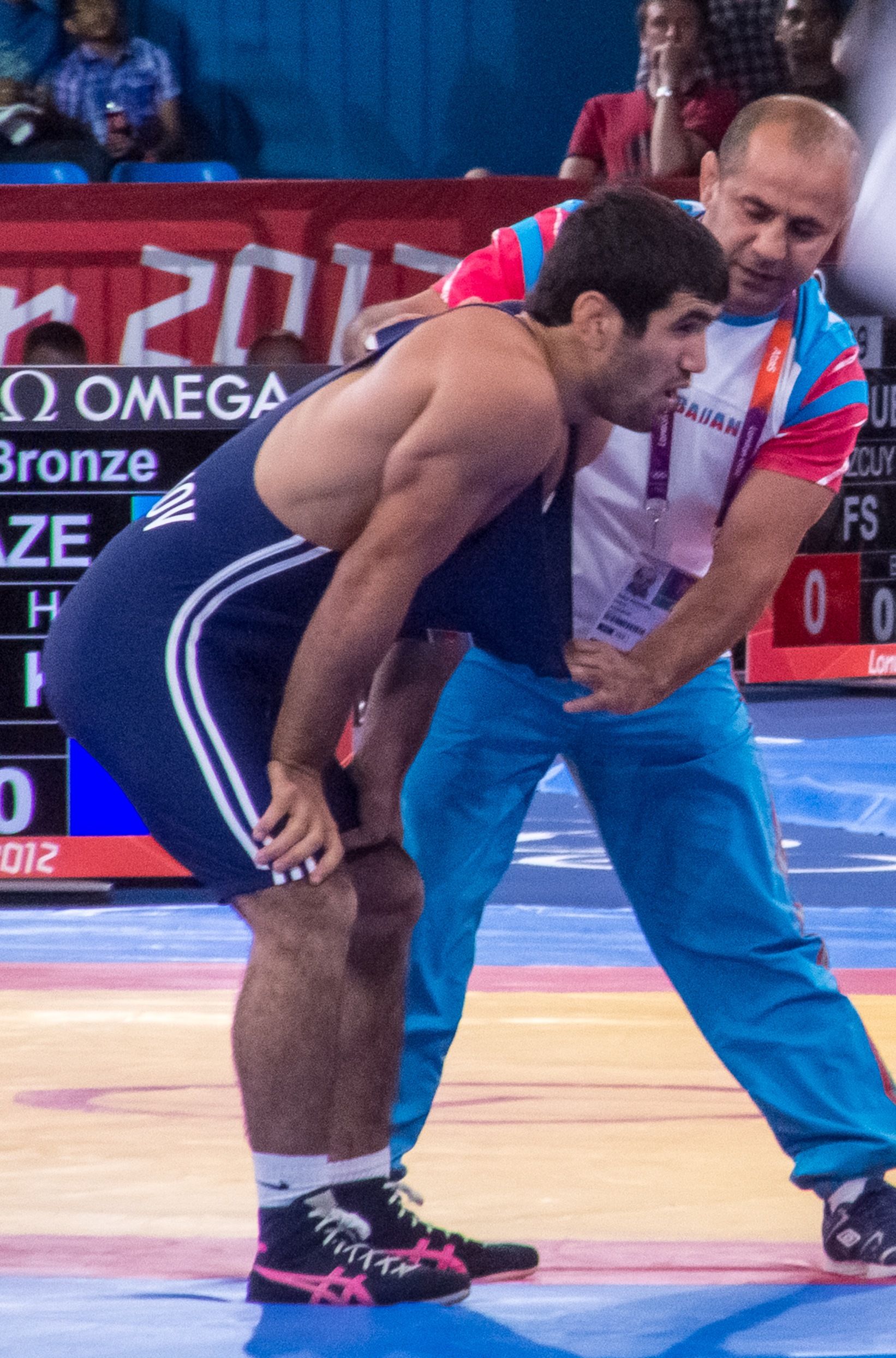 Jabrayil Hasanov, 2012 Summer Olympics